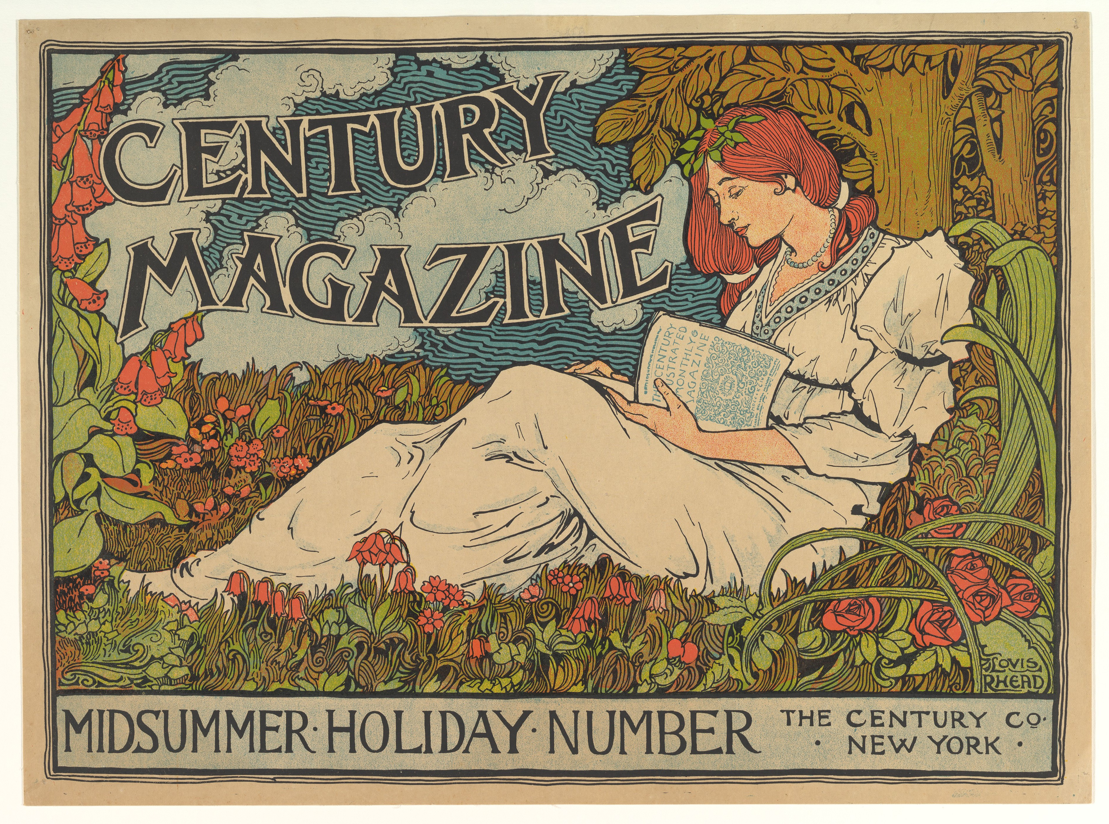 Print; Prints